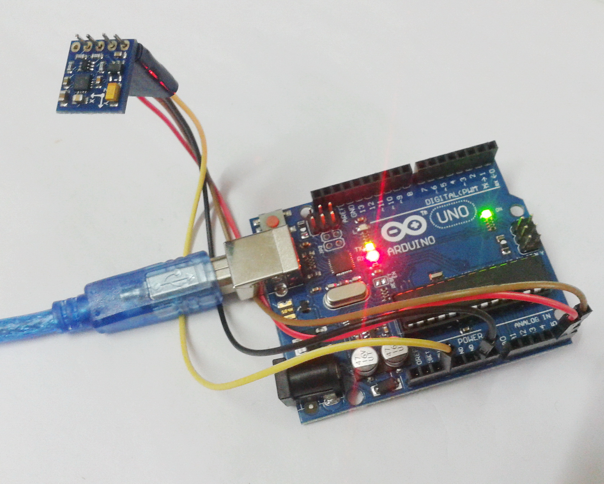 Digital Compass sensor or Gyroscope connected to an Arduino UNO